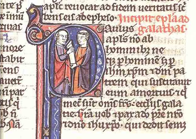 Beginning of the New Testament Epistle to Galatians translated from Greek into Latin. An illuminated manuscript, in the picture Apostel Paul hands his Epistle to a Galatian. Text (compare Latin text Vulgate Epistula Ad Galatas - Chapter 1 Latin text Vulgate Epistula Ad Galatas - Chapter 1: [black].... [red] Incipit epistula ad Galathas [black] [1.] Paulus apls [=apostolus] non ab hominib;[=bus] ne que per hominem sed per Ihm [=Iesum] xrm [=Christum] et Dm [=Deum] Pa trem qui suscitavit eum a mortuis [2.] et qui mecum sunt omnes frs [=fratres] ecclijs [=ecclesiis] Gala ti[a]e. [3.] Gra[tia] vob[is] et pax a D[e]o P[at]re et Domino nostro Ihu [=Iesu] xro [=Christo]. [4.] qui dedit semet